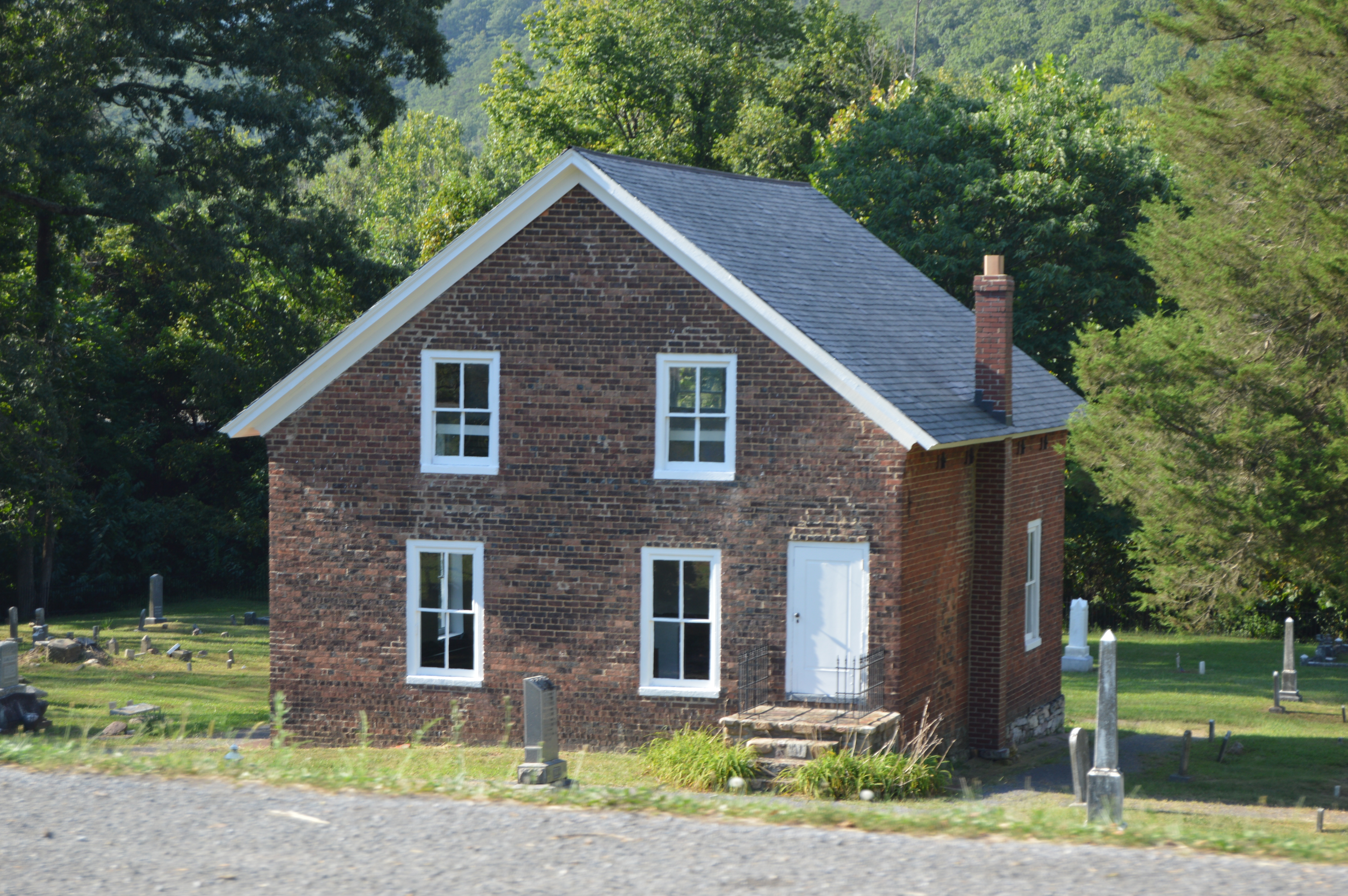 Front and eastern side of the Oakland Grove Presbyterian Church, located on Selma Low Moor Road west of Clifton Forge in Alleghany County, Virginia, United States. Built in 1847, it is listed on the National Register of Historic Places.